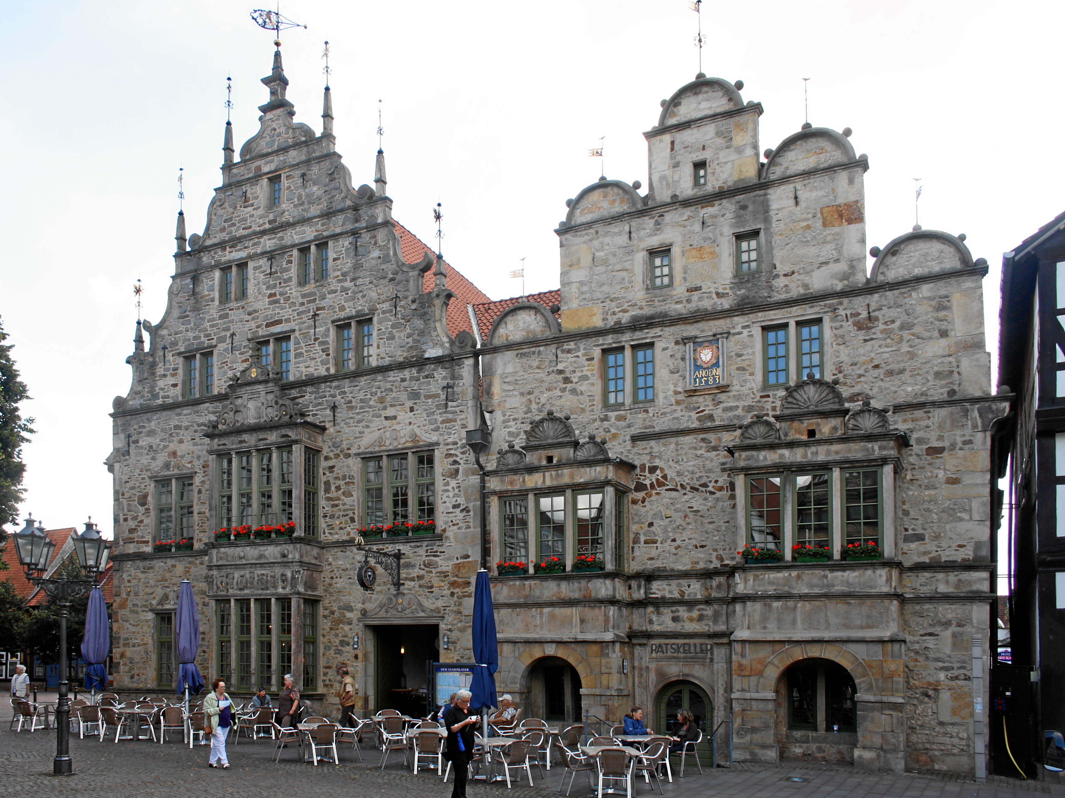 Rinteln, Germany. Former town hall, view from North.